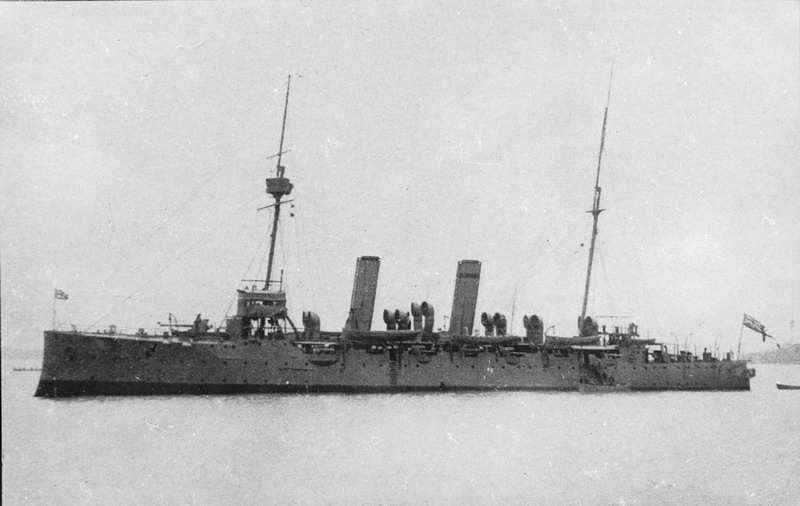 HMS Talbot, Russo-Japanese war